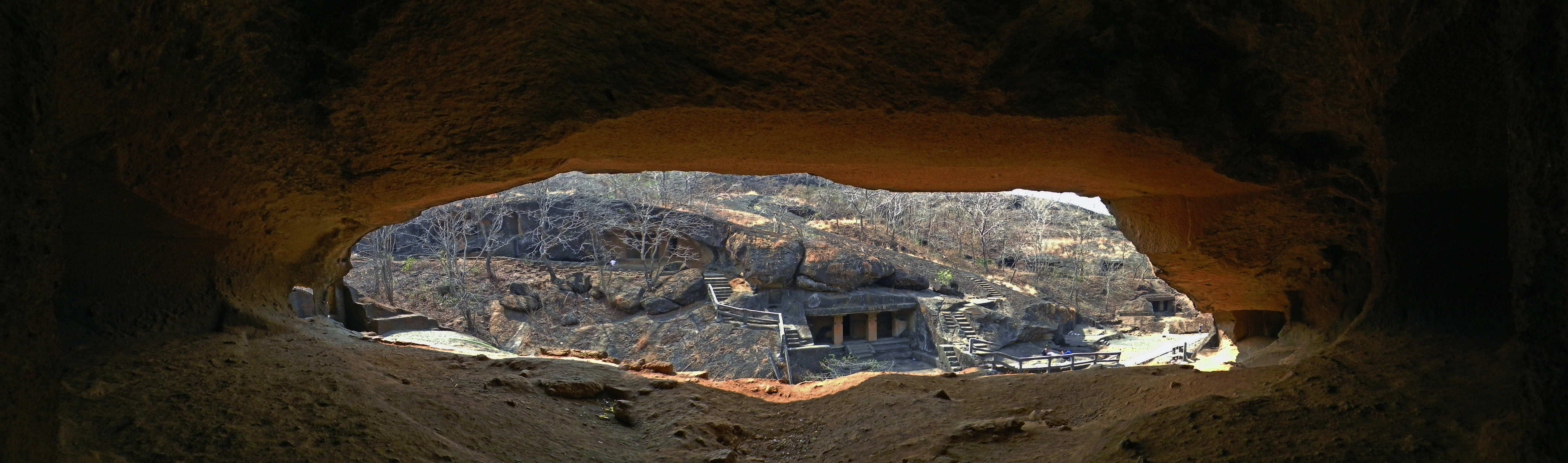 Buddhist Caves The phtograph was shot from inside a cave in 3 parts on 15h March 2015 around 11 am. 3 photos of 12 megapixel were combined with the help of computer software. Final size of the photo with me is 9711x2871 pixel. F Stop 4.5, FL 4.0mm, Speed 1/320. No flash used